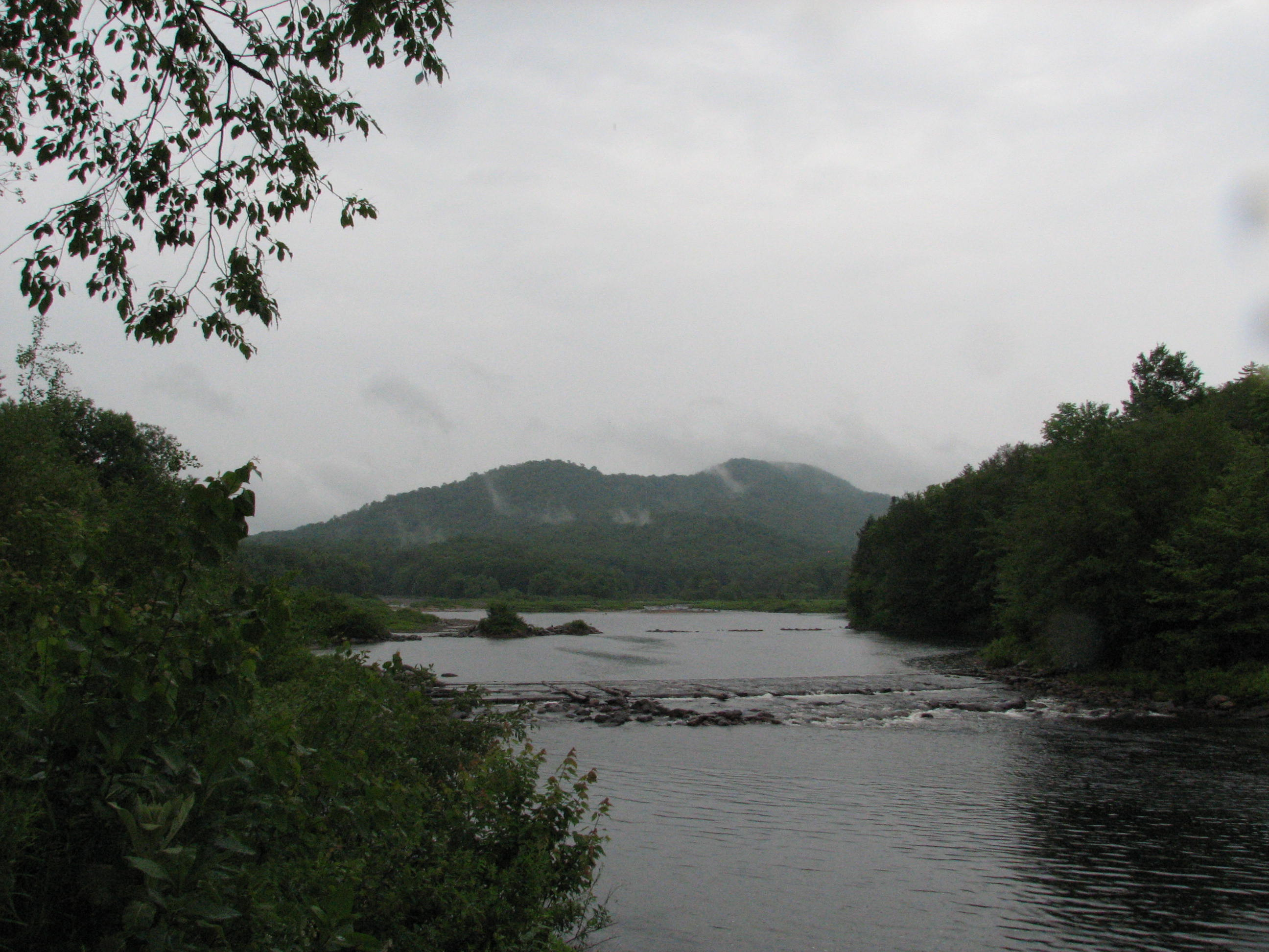 author: David T. Henrickson This picture was taken by me from the bank of the West Canada Creek upstream from the bridge on Rt 8 at Nobleborough. The subject is the picture is the square topped mountain, and the creek. author: David T. Henrickson This picture was taken by me from the bank of the West Canada Creek upstream from the bridge on Rt 8 at Nobleborough. The subject is the picture is the square topped mountain, and the creek.